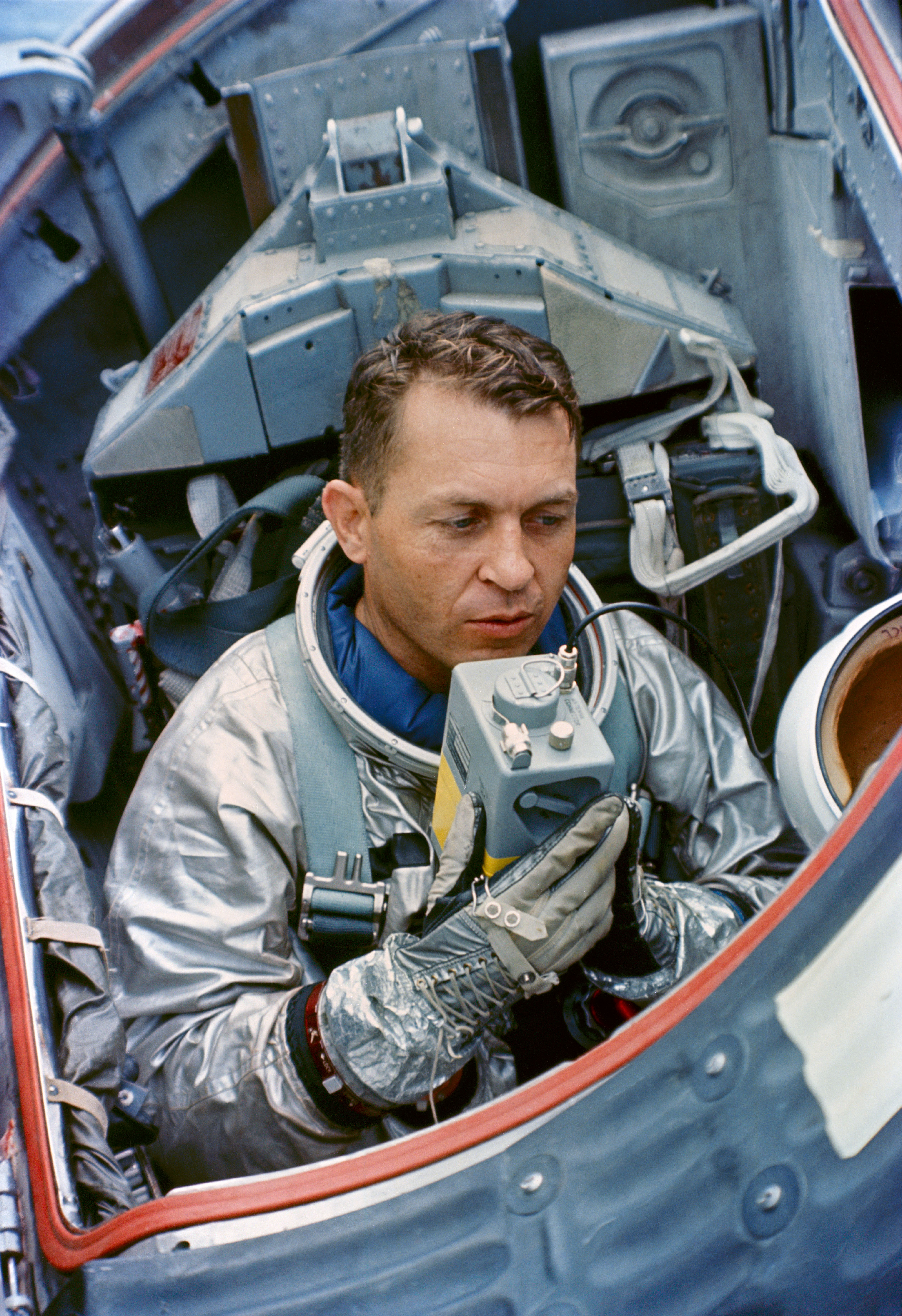 NASA astronaut Elliot See, pilot of the Gemini 5 backup crew, inside the Gemini Static Article 5 spacecraft prior to water egress training in the Gulf of Mexico. See was later killed in a plane crash while training to command the Gemini 9 mission. NASA photo S65-28456 in public domain.